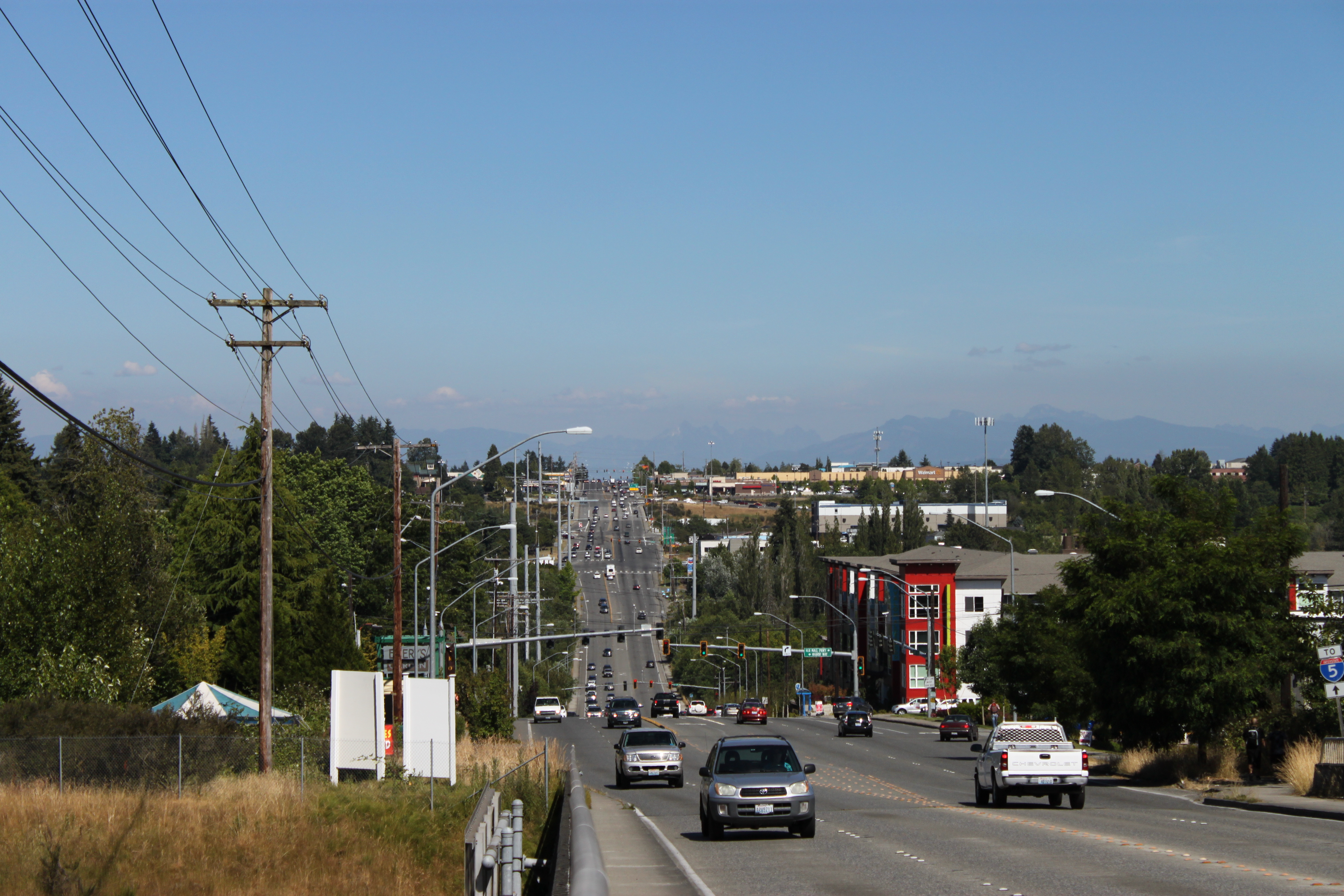 Looking east on 164th Street Southwest in northern Lynnwood from Swamp Creek Park & Ride.